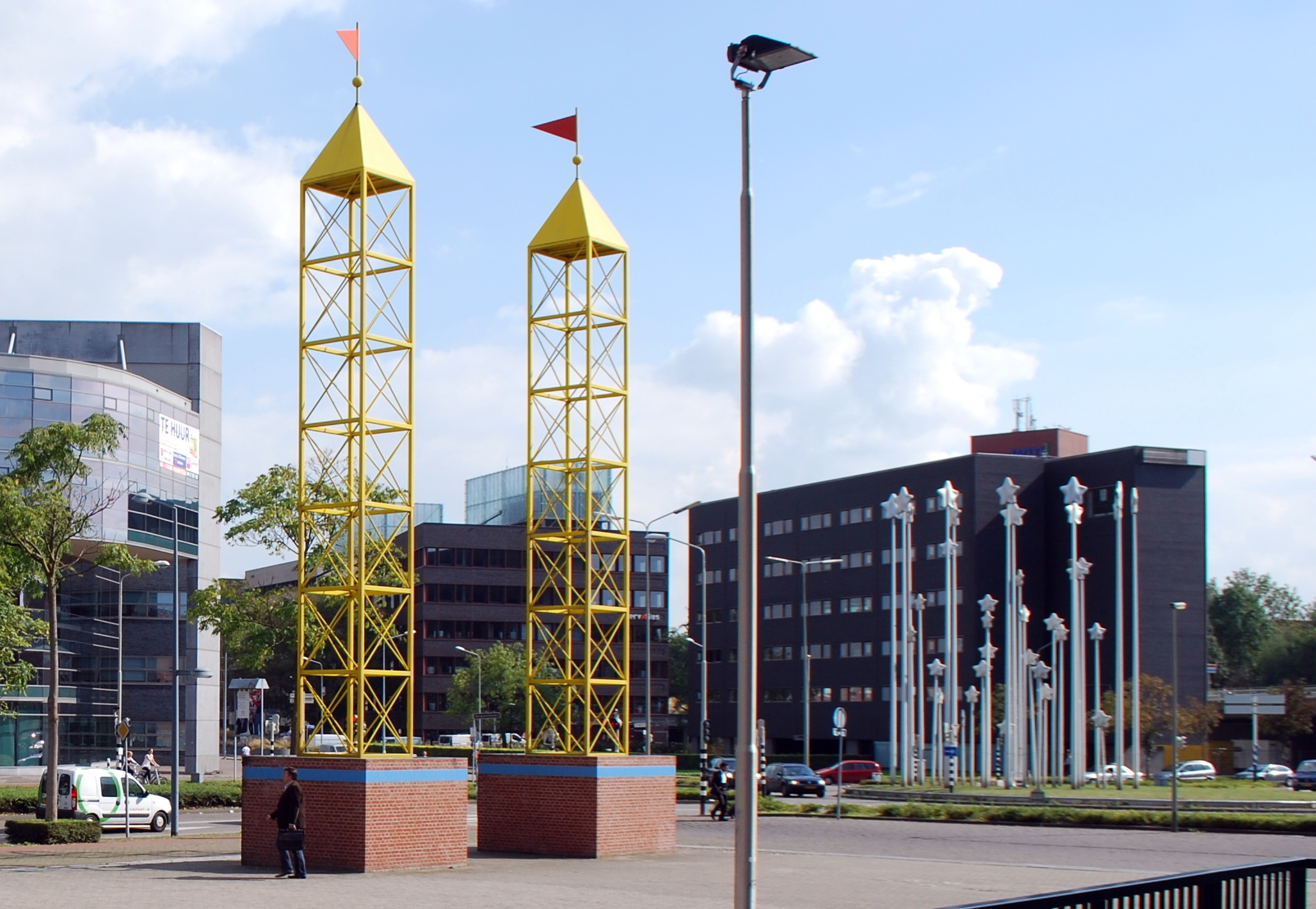 Maastricht, the Netherlands. View from the stairs of the Bonnefanten Museum of two public sculptures. The yellow pylons are a posthumous reconstruction of a design by Aldo Rossi. To the right is the sculpture "Stars of Europe" by Italian artist Maura Biava, conmemorating the Treaty of Maastricht (1992) that formed the European Union.